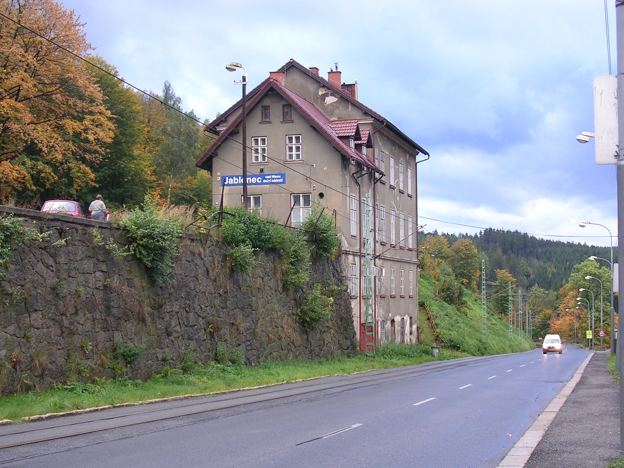 On the right Liberecká street and Tramway line between Liberec and Jablonec, on the left "Jablonec nad Nisou dolní nádraží" railway station. Jablonec nad Nisou, Czech Republic.